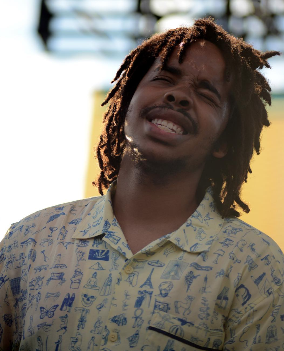 Photo by Frank Morales